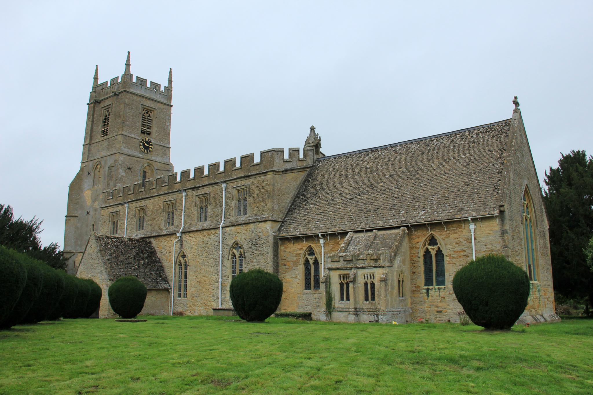 Situated on the main road through the village and easily recognisable from the thatched lychgate. This entrance, owned by the church since 1964, was formerly part of a row of cottages. It is believed that St. Augustine preached on this site in 597AD. The present building dates from the 13th century, with significant additions and alterations over the years.